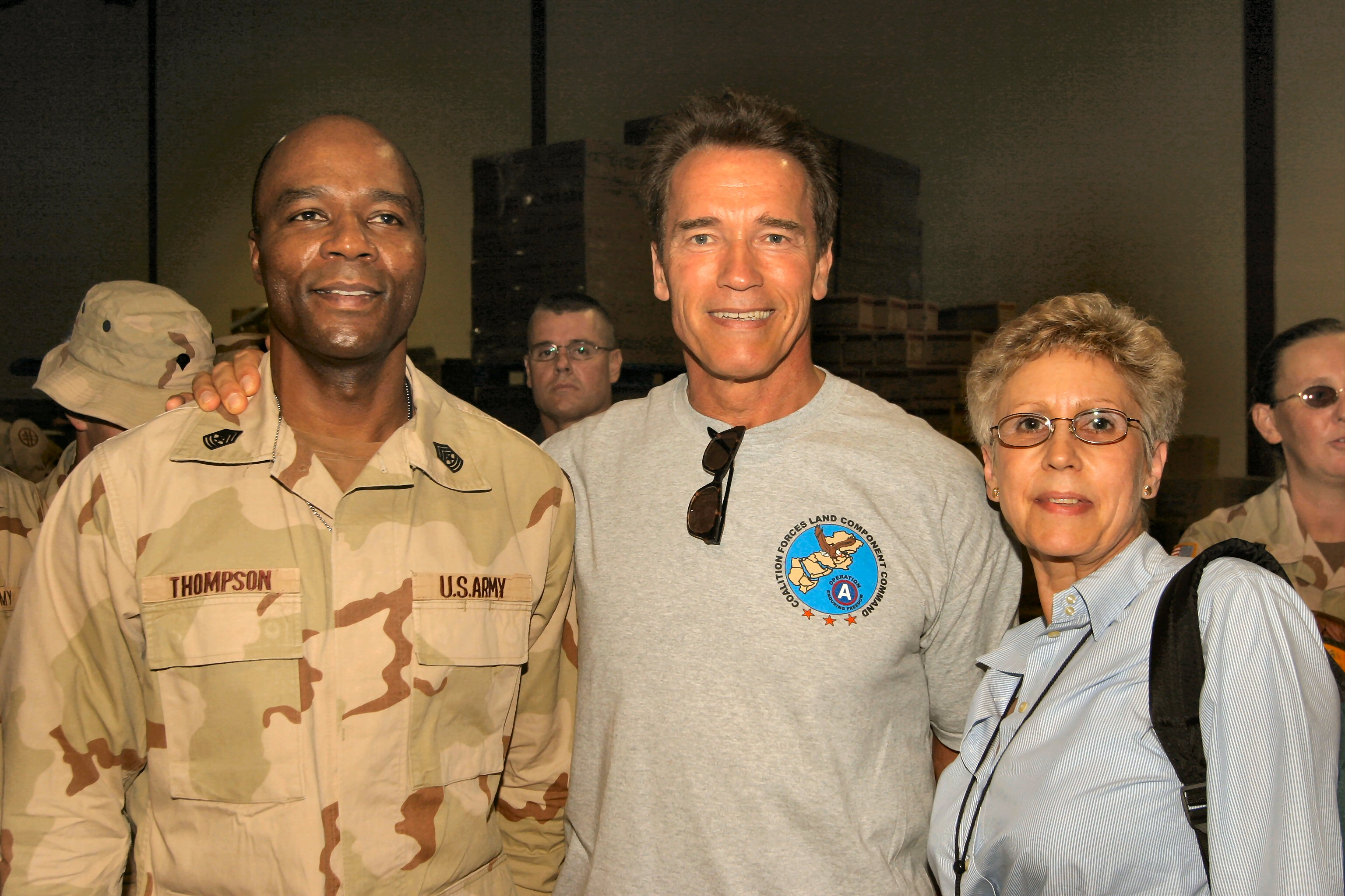 Arnold Schwarzenegger at Camp Arifjan, 3rd Army, US Army Central (ARCENT).